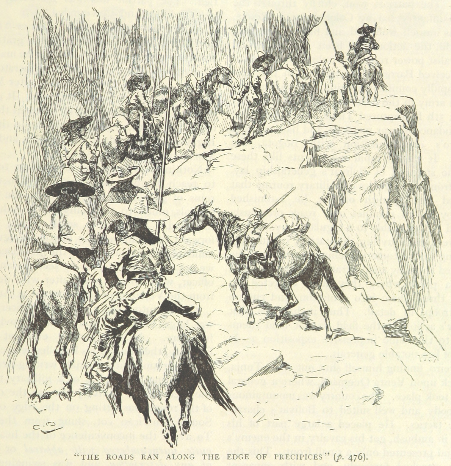 Troops participating in Bolívar's campaign to liberate New Granada cross the Cordillera Oriental (the East Andes).